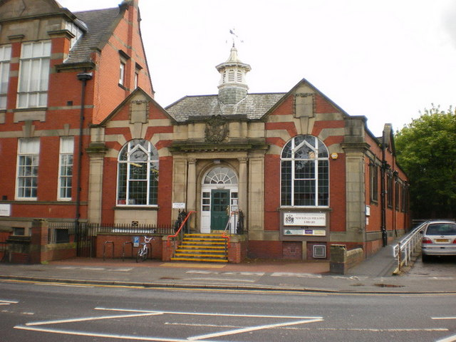 Newton-le-Willows, Library